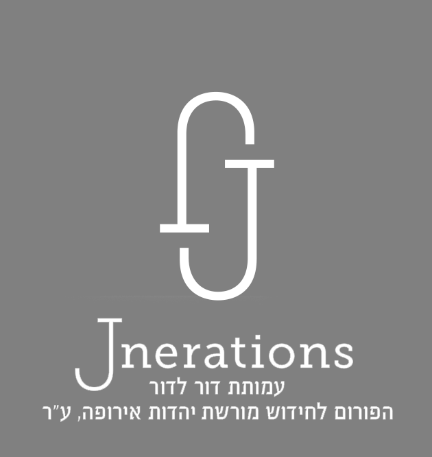 logo of J-nerations organization